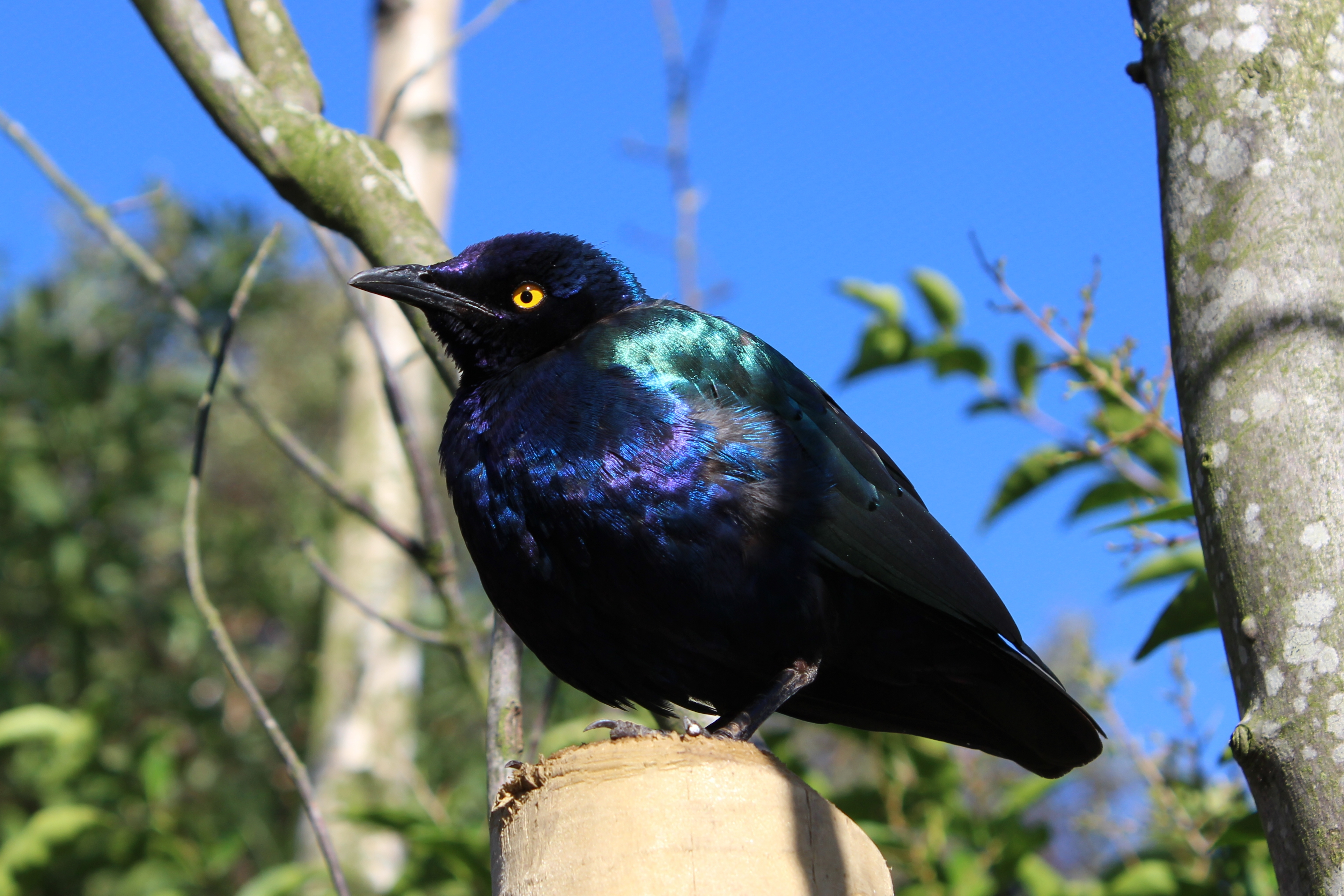 Purple Glossy Starling (Lamprotornis purpureus amethystinus) by Steven Straiton